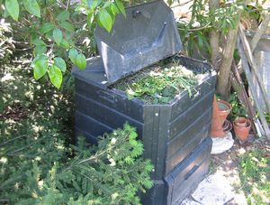 Garden Compost bin, in Toulouse, France.